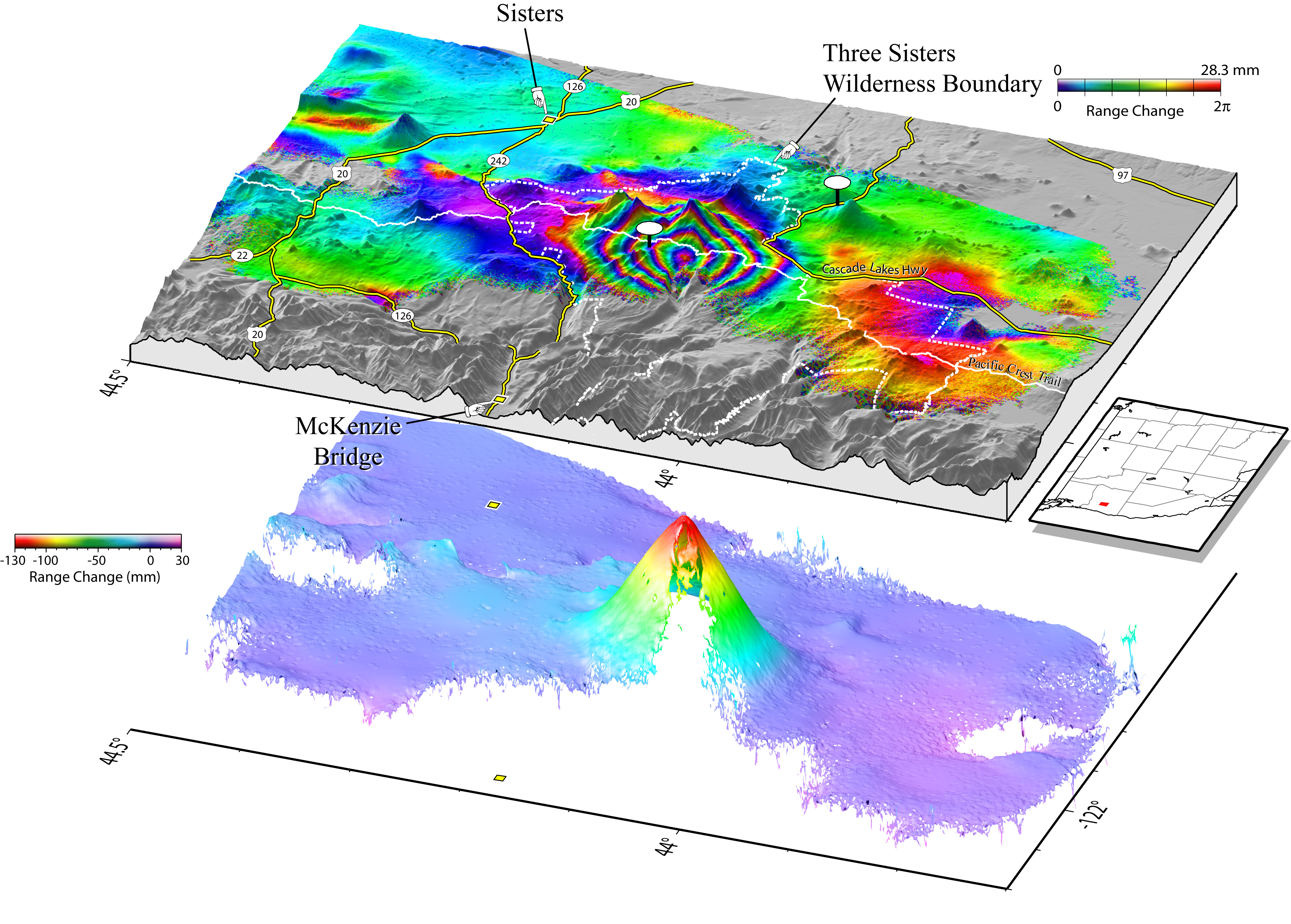 1995-2001 Interferogram of Volcano in Three Sisters Wilderness.Credit: U.S. Geological Survey Department of the Interior/USGS